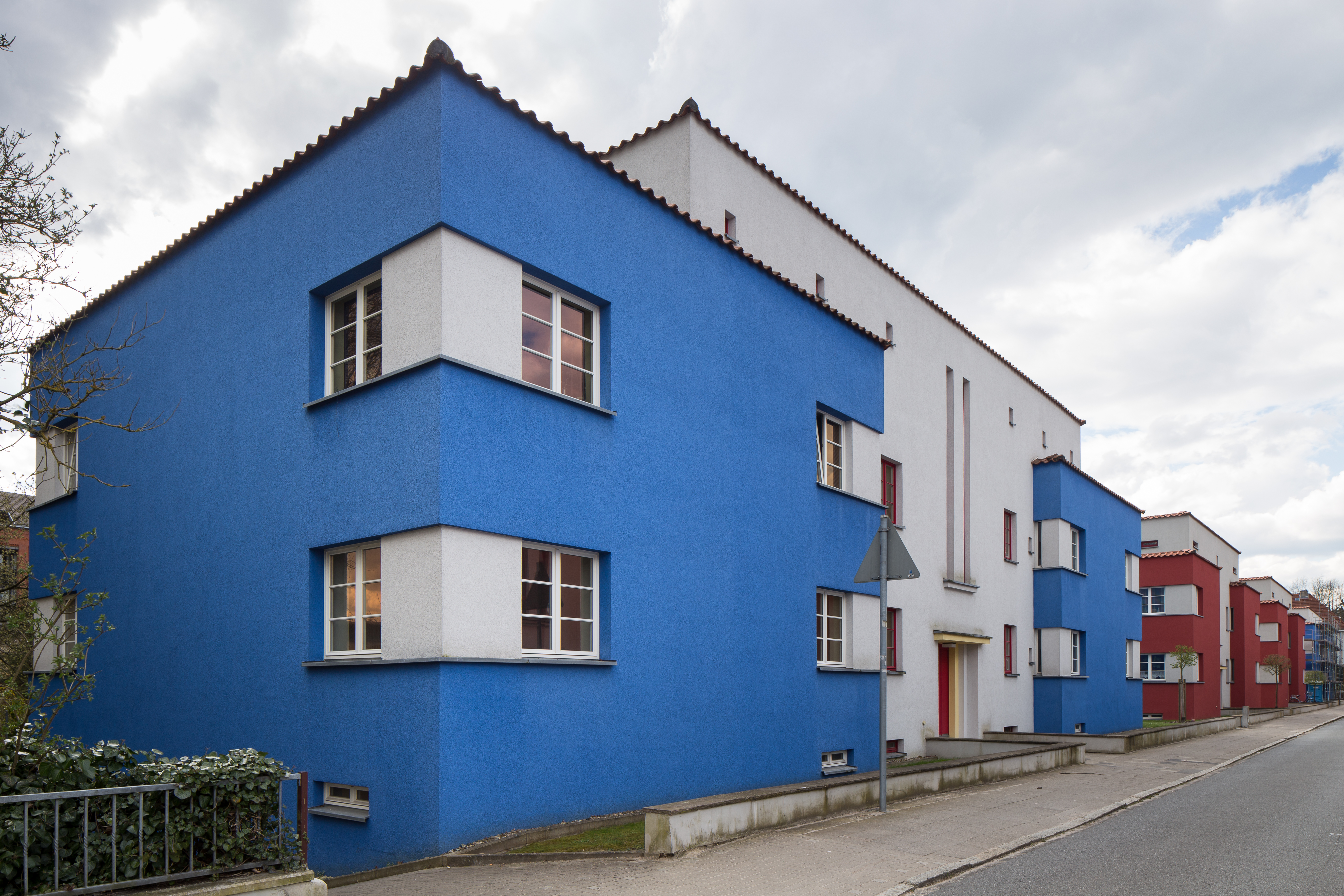 Housing complex "Italienischer Garten" (= Italian Garden) located in Celle, Lower Saxony, Germany. The complex was planned by the German architect Ottos Haesler in 1924/25.